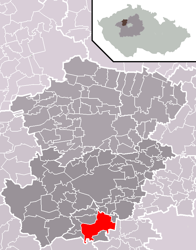 Location of Unhošť town within Kladno District and administrative area of Kladno as a Municipality with Extended Competence.